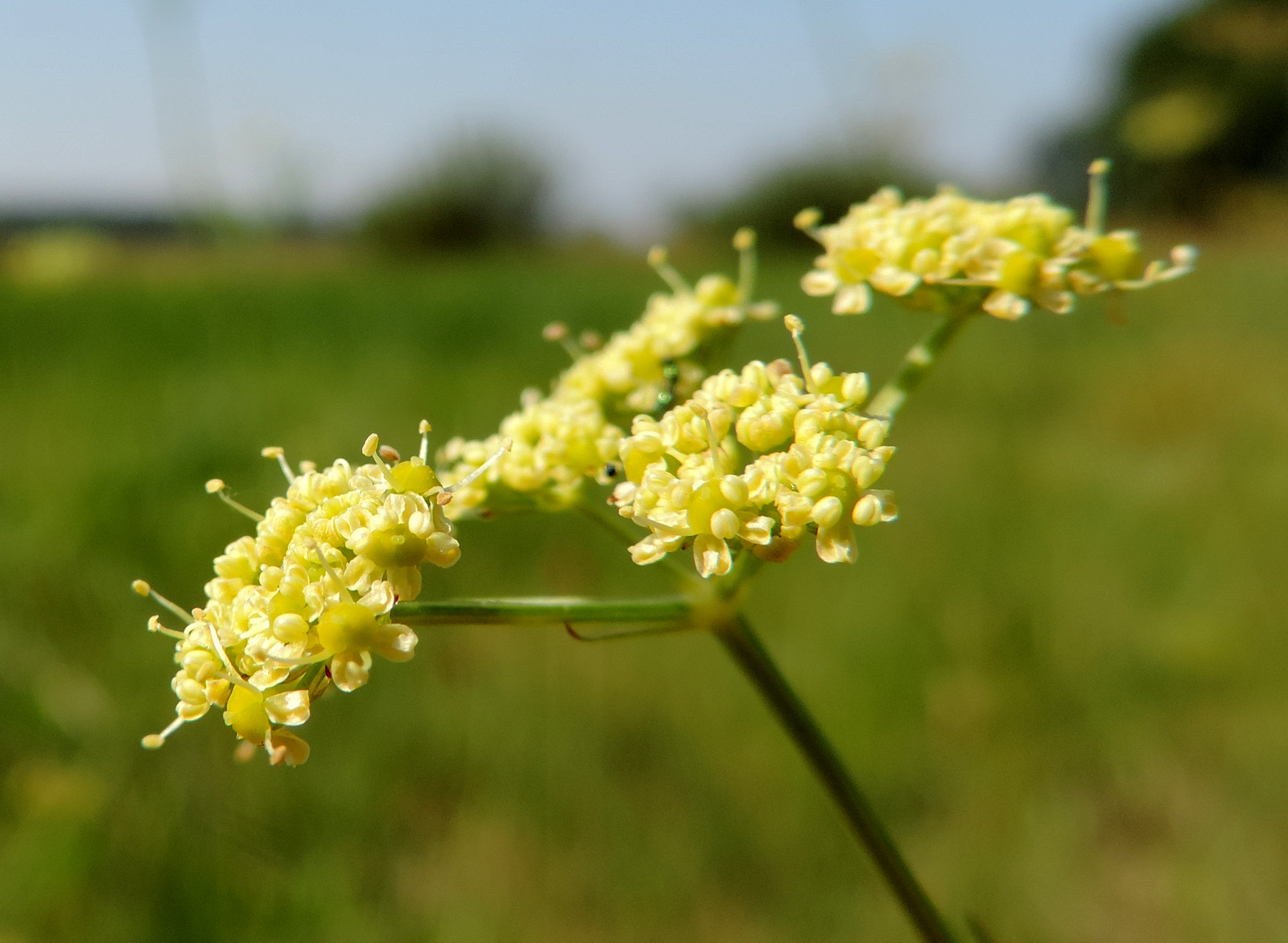 Silaum silaus. Wet meadows in Odra river valley near Czerwieńsk, W Poland